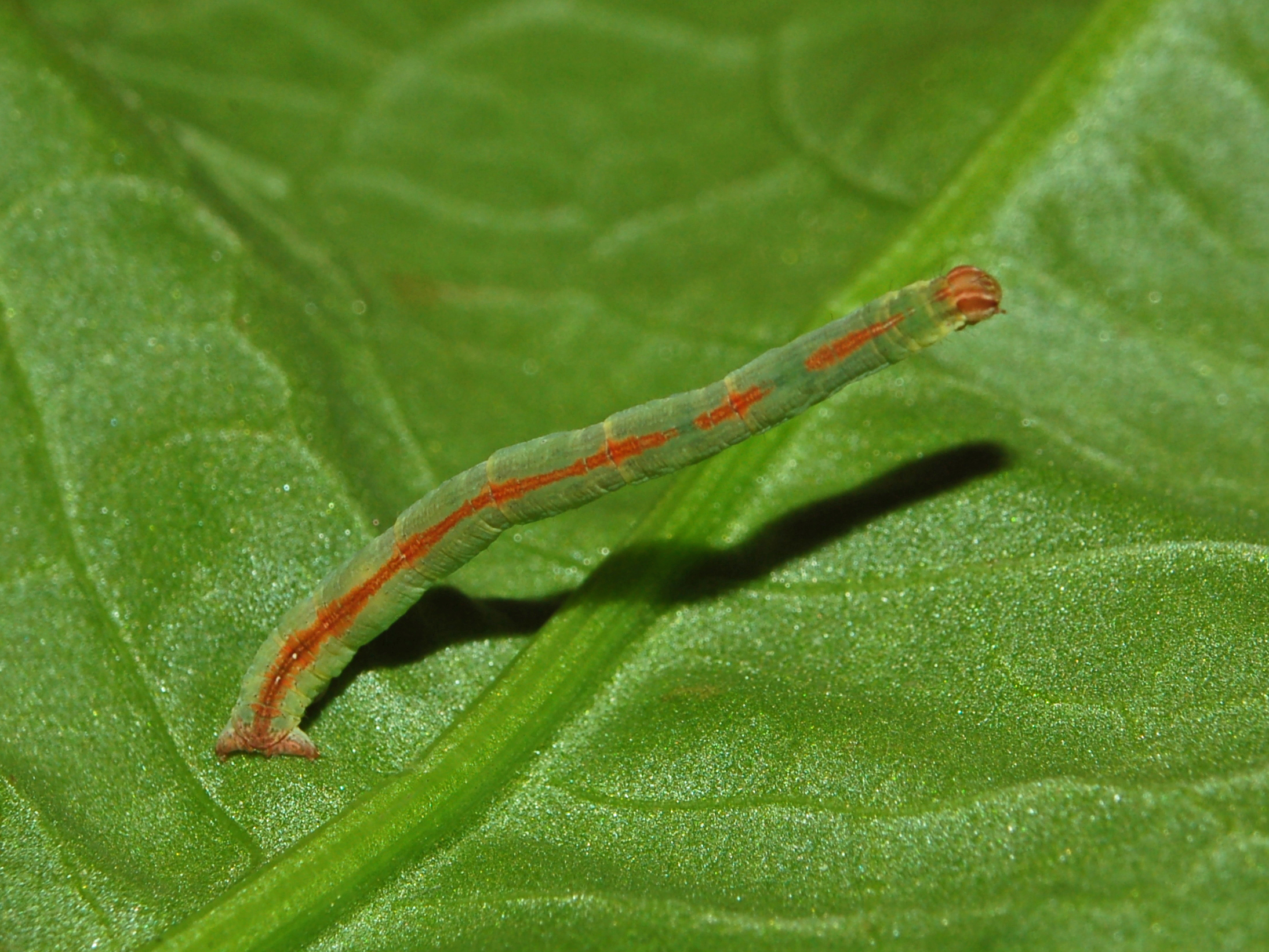 Caterpillar of Rhodometra sacraria on Rumex crispus in Genova, Italy